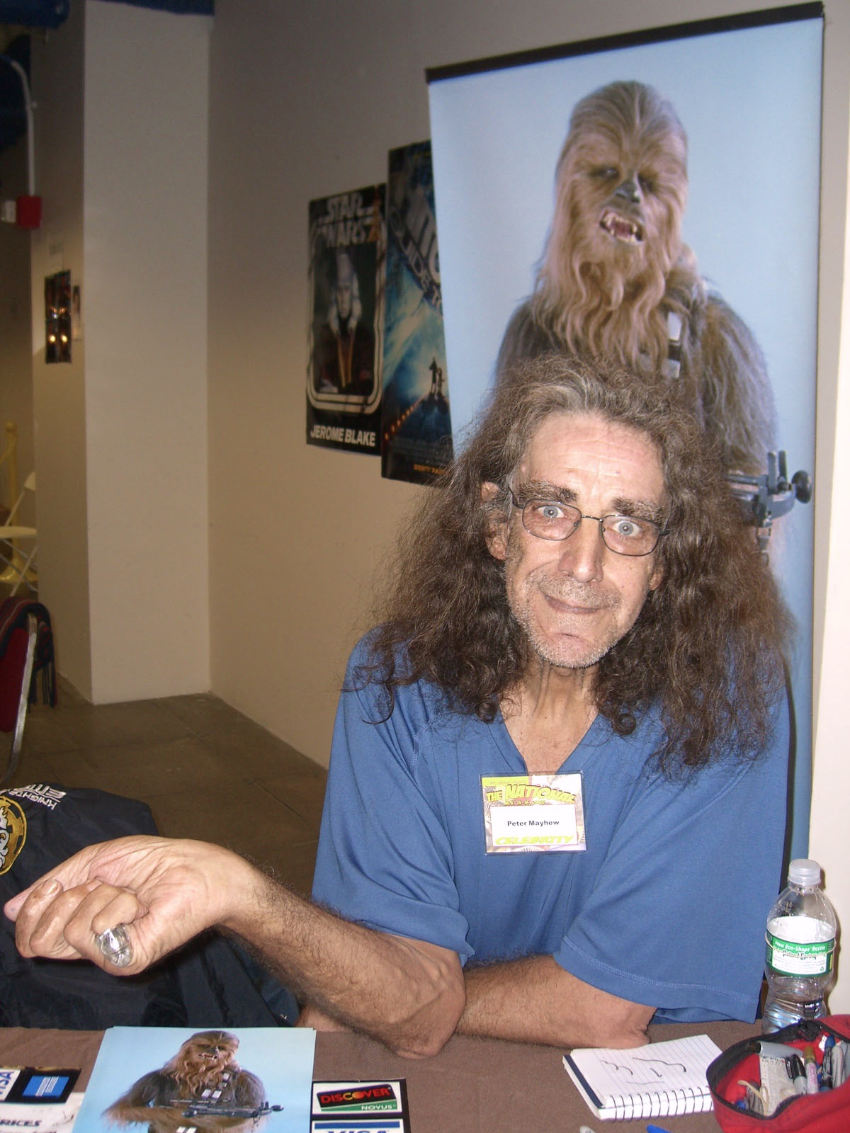 Actor Peter Mayhew at the November 2008 Big Apple Convention in Manhattan. This photo was created by Luigi Novi. It is not in the public domain, and use of this file outside of the licensing terms is a copyright violation.